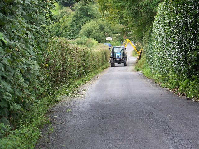 Hedge cutting near Chudleigh. A common scene at this time of the year.